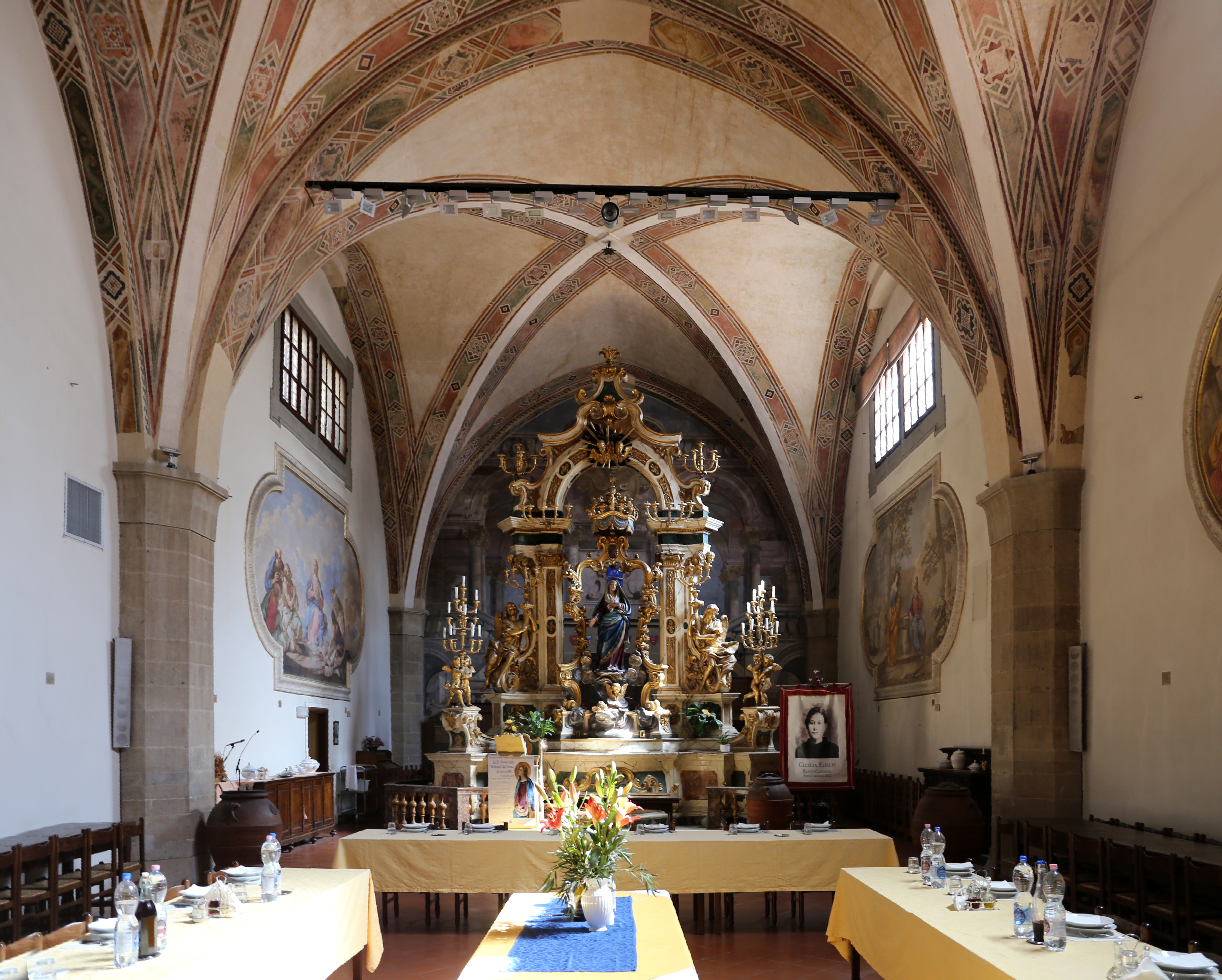 Santissima Annunziata (Florence) - Refectory